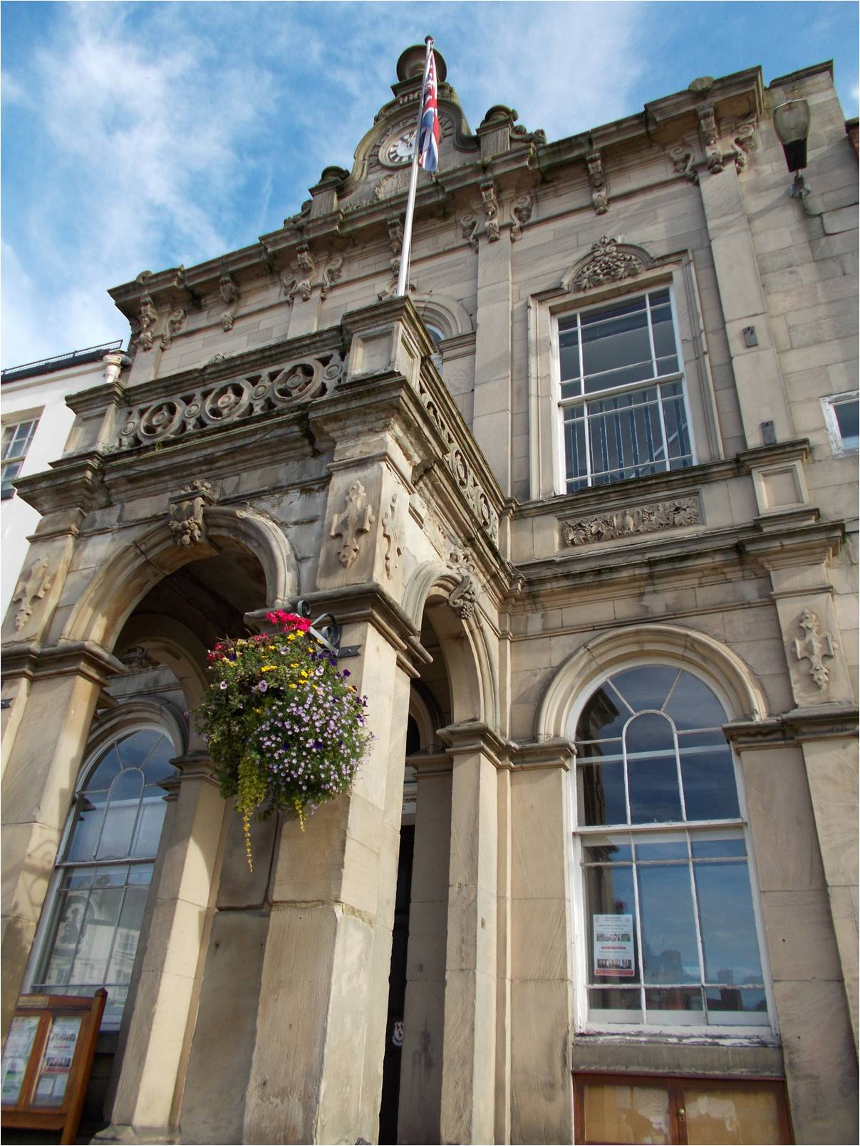 Town Hall in Ashbourne